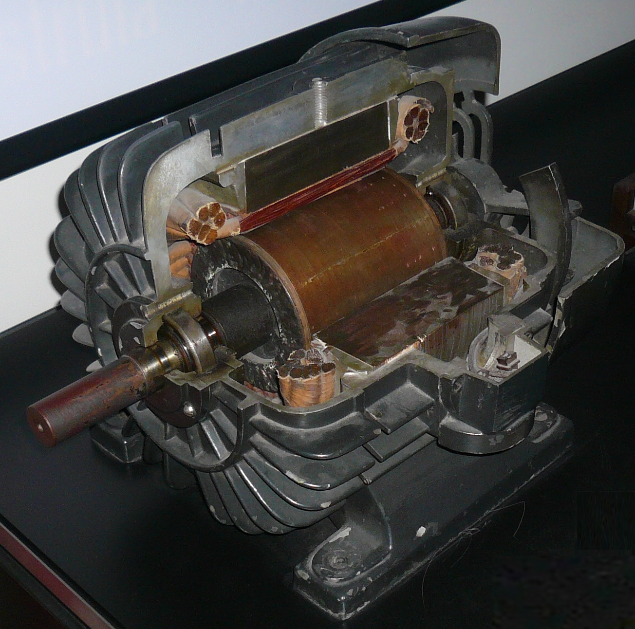 A section of a three-phase asynchronous motor. Nikola Tesla Museum, Belgrade, Serbia